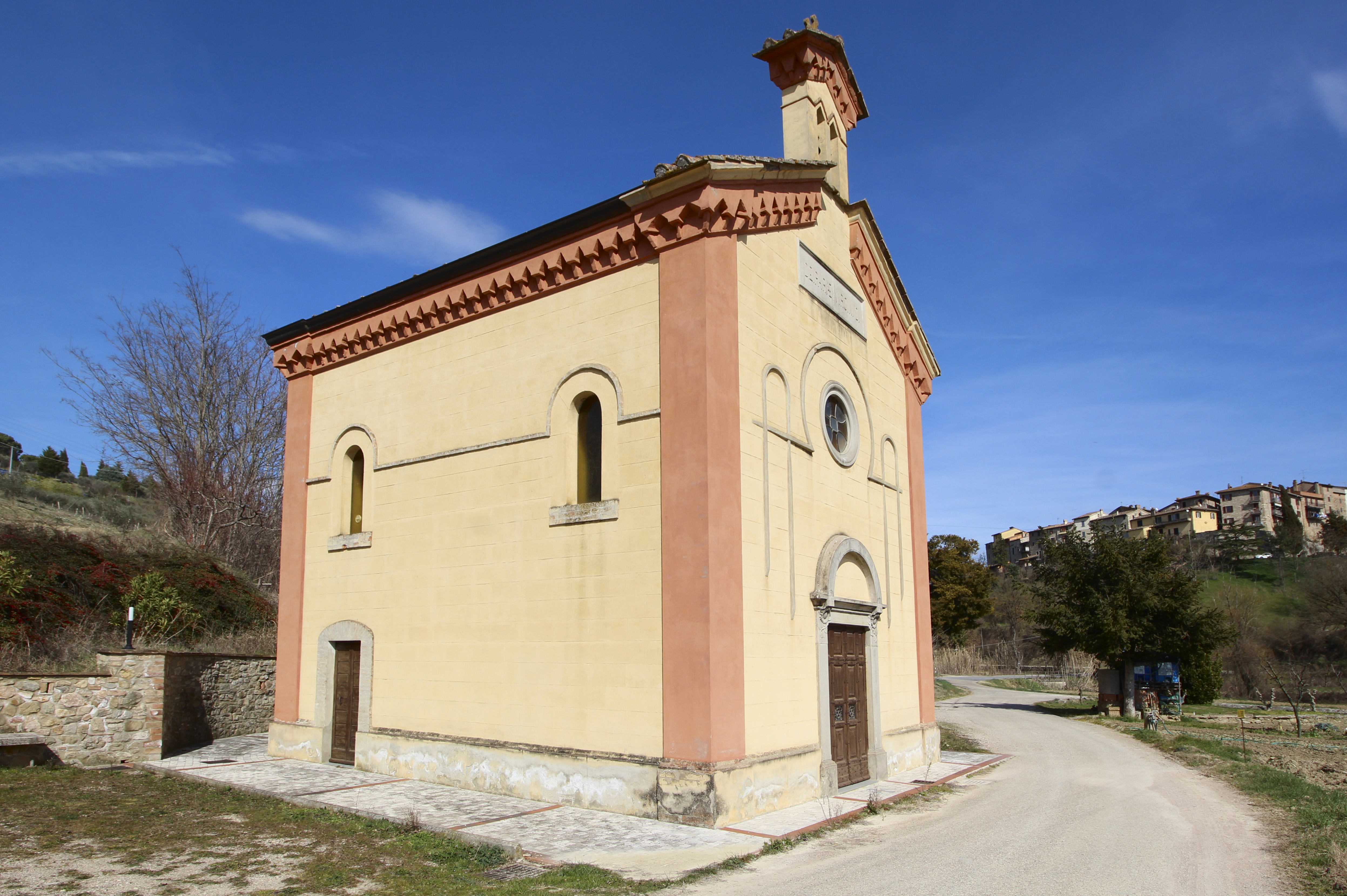 Church Madonna del Ponte, Morcella, hamlet of Marsciano, Province of Perugia, Umbria, Italy